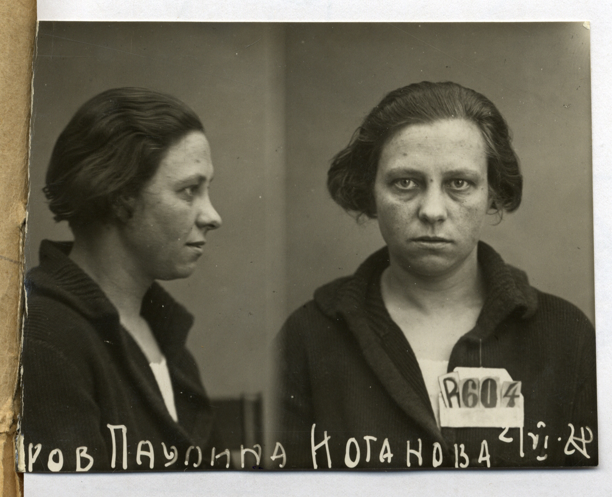 Estonian communist Paula Järv.